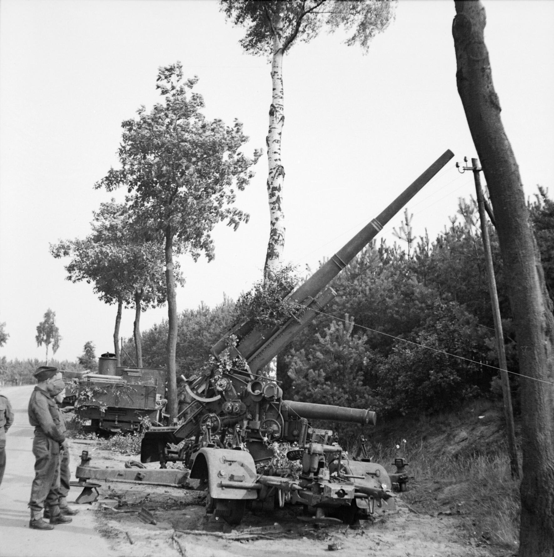 The British Army in North-west Europe 1944-45 Abandoned German 88mm anti-tank gun in Belgium, 13 September 1944.